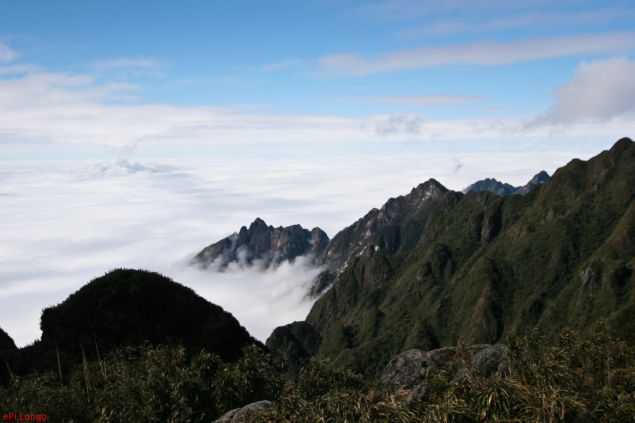 Hoang Lien Son mountain range. Picture taken from Fansipan.